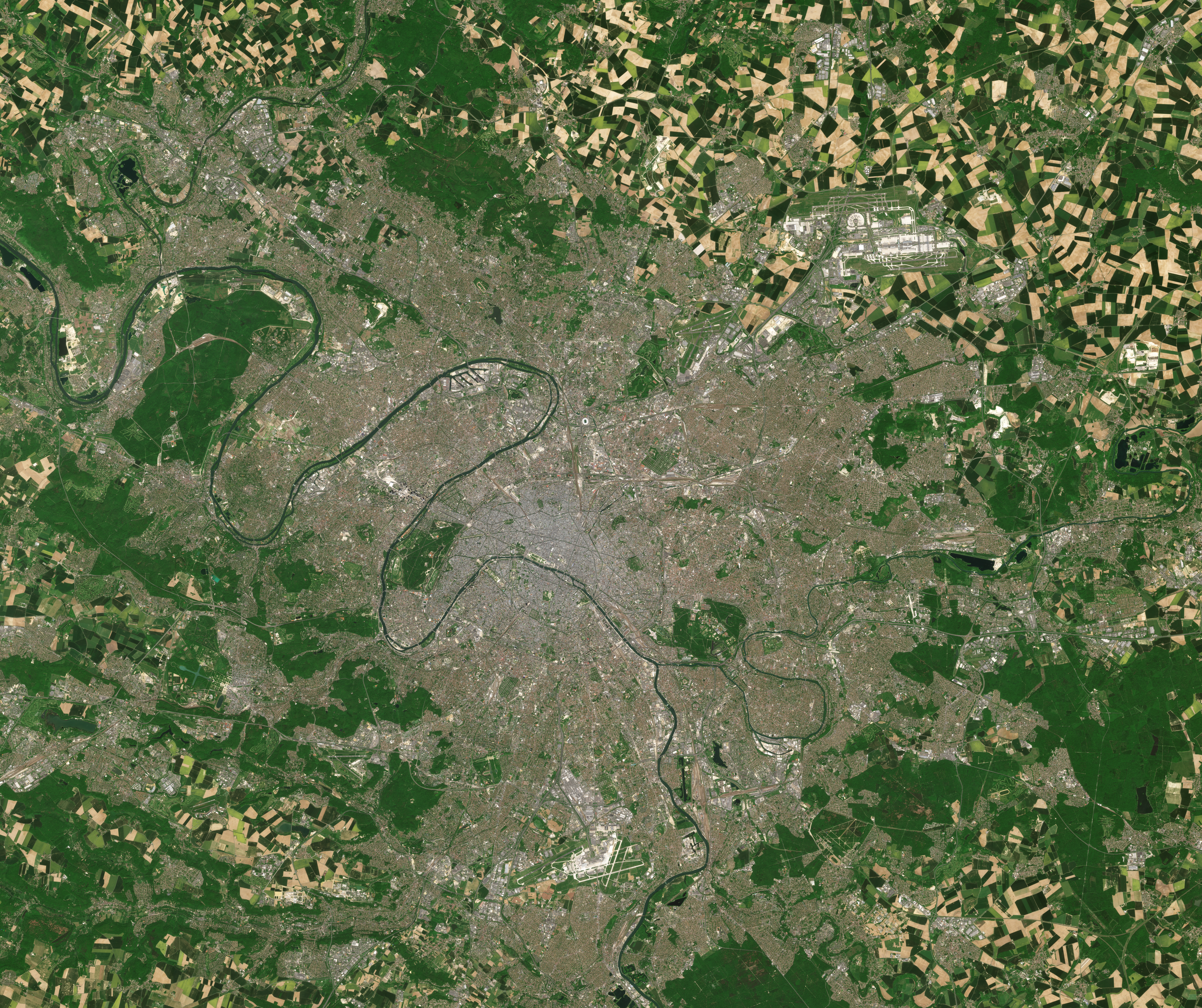 Date: 2018-05-06 Sensor: MSI on Sentinel-2B Resolution: 10m RGB Composites: True color, Band 4-3-2